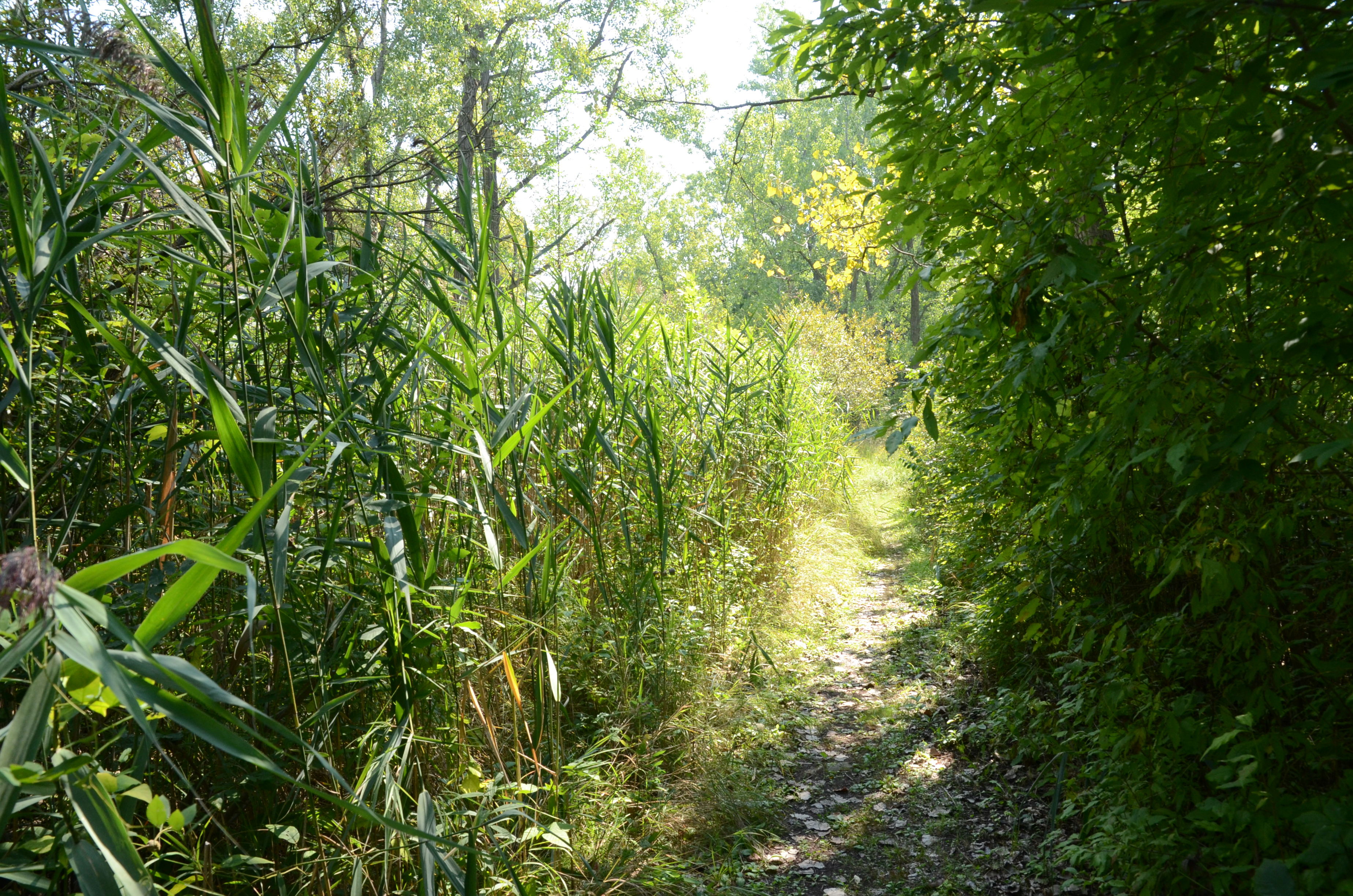 A hike through the tallgrass prairie area in Windsor, Ontario's Ojibway Prairie complex at noon.